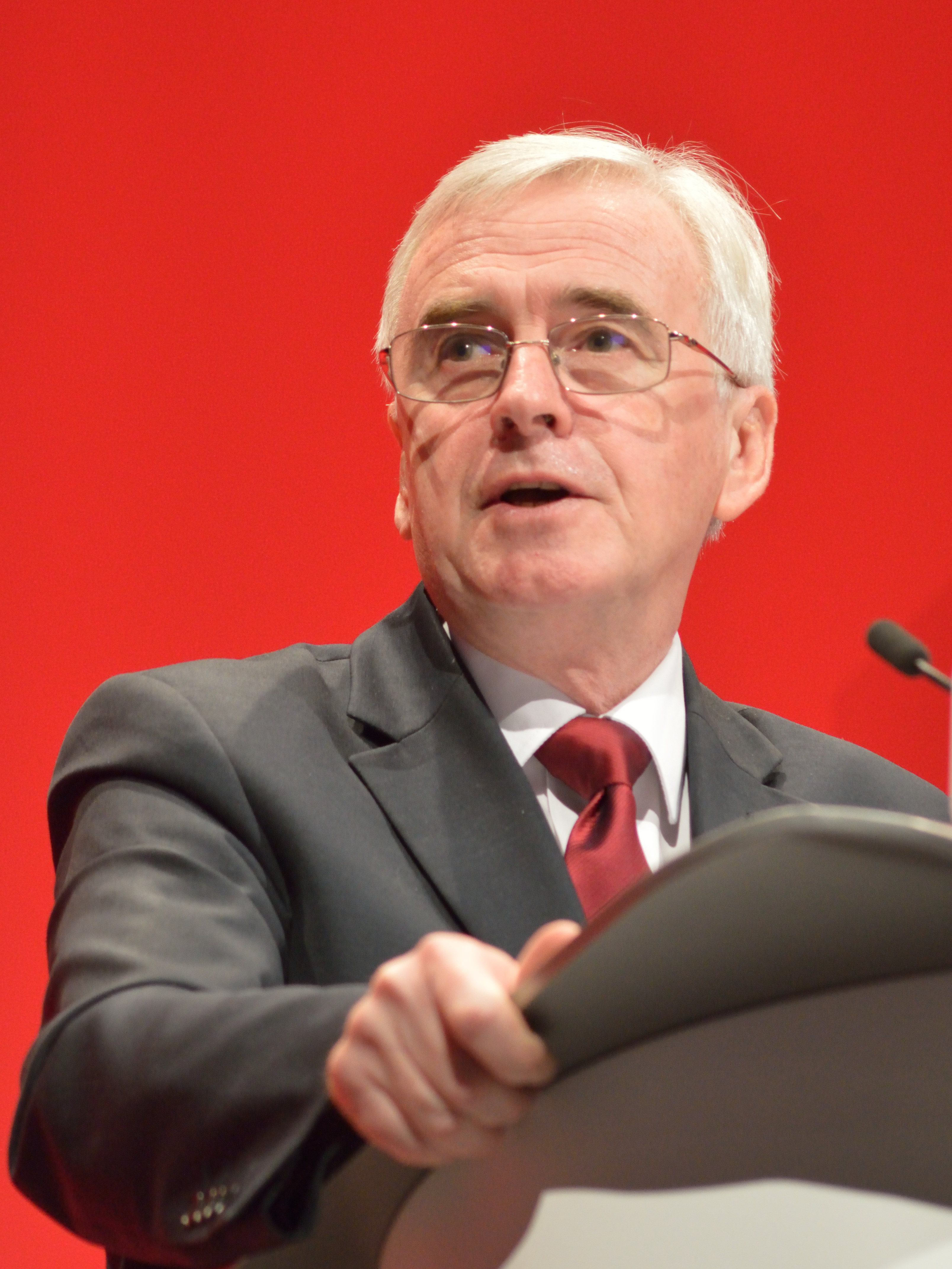 John McDonnell giving his Shadow Chancellor of the Exchequer speech at the 2016 Labour Party Conference.